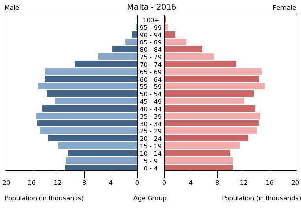 The population pyramid of Malta illustrates the age and sex structure of population and may provide insights about political and social stability, as well as economic development. The population is distributed along the horizontal axis, with males shown on the left and females on the right. The male and female populations are broken down into 5-year age groups represented as horizontal bars along the vertical axis, with the youngest age groups at the bottom and the oldest at the top. The shape of the population pyramid gradually evolves over time based on fertility, mortality, and international migration trends.